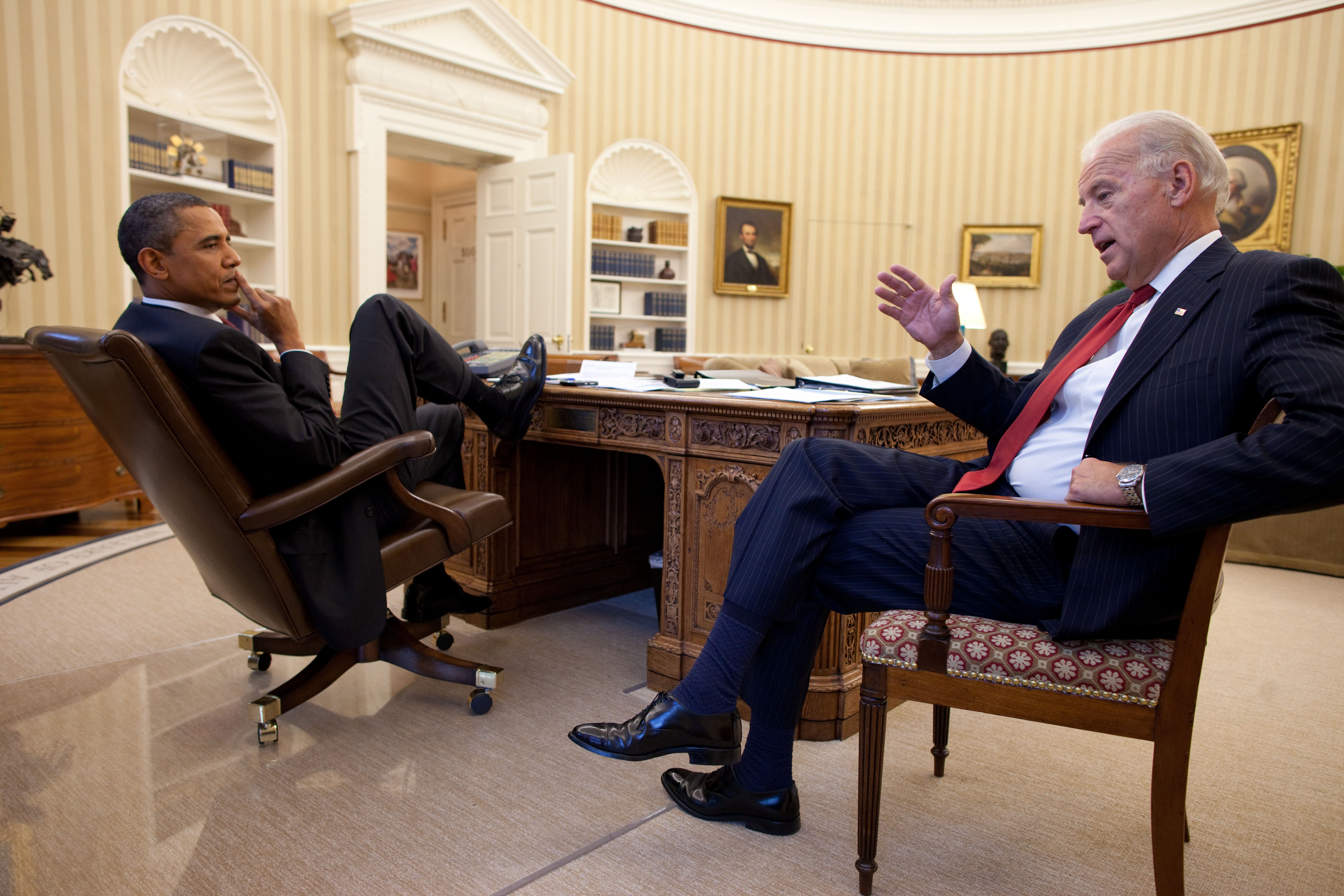 President Barack Obama talks with Vice President Joe Biden in the Oval Office, Nov. 3, 2010. (Official White House Photo by Pete Souza)